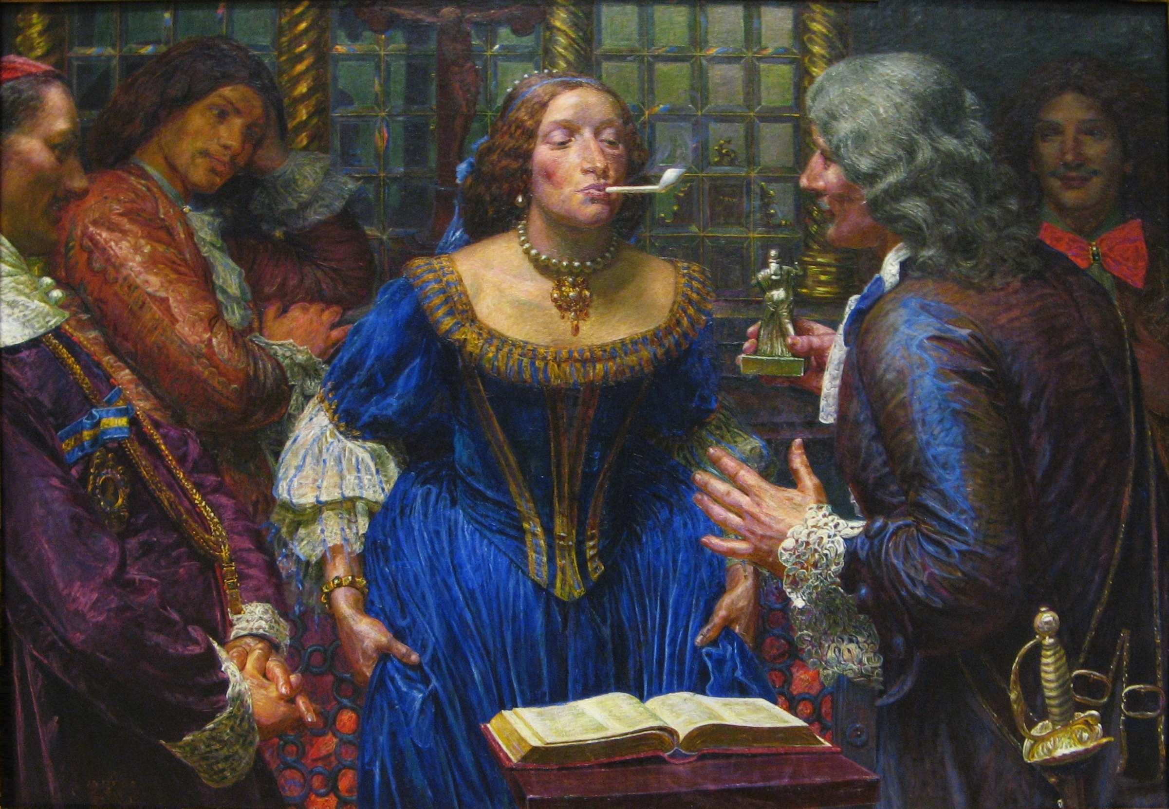 Queen Christina in the Palazzo Corsini (1908)